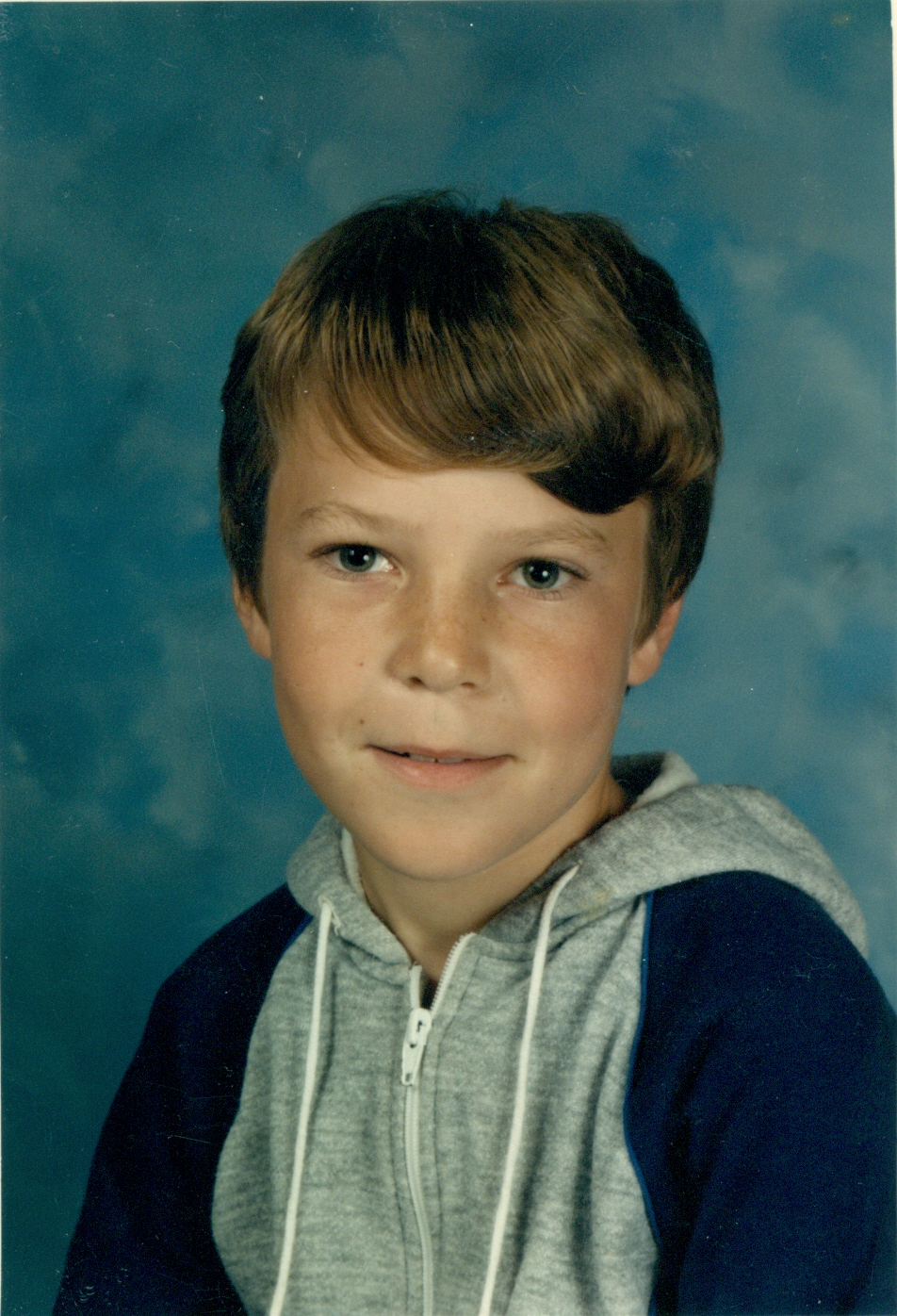 A personal photo of Sergeant 1st Class Jared C. Monti, the first Soldier recipient for actions in Afghanistan/Operation Enduring Freedom. To learn more, visit